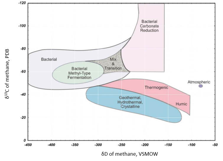 A well known diagram used for categorizing and identifying methane sources. Redrawn from Whiticar, 1999.